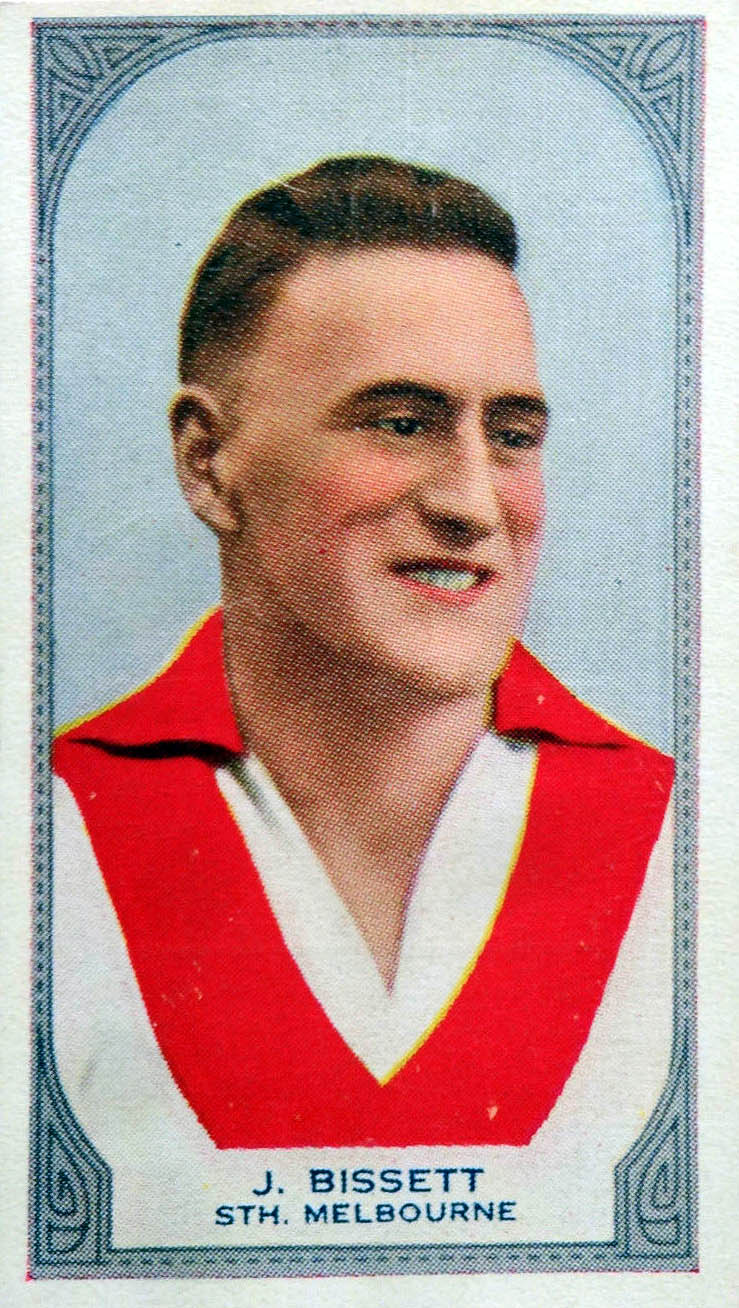 Jack Bisset of South Melbourne FC on a card by Hoadleys, from the "Victorian Footballers" series.